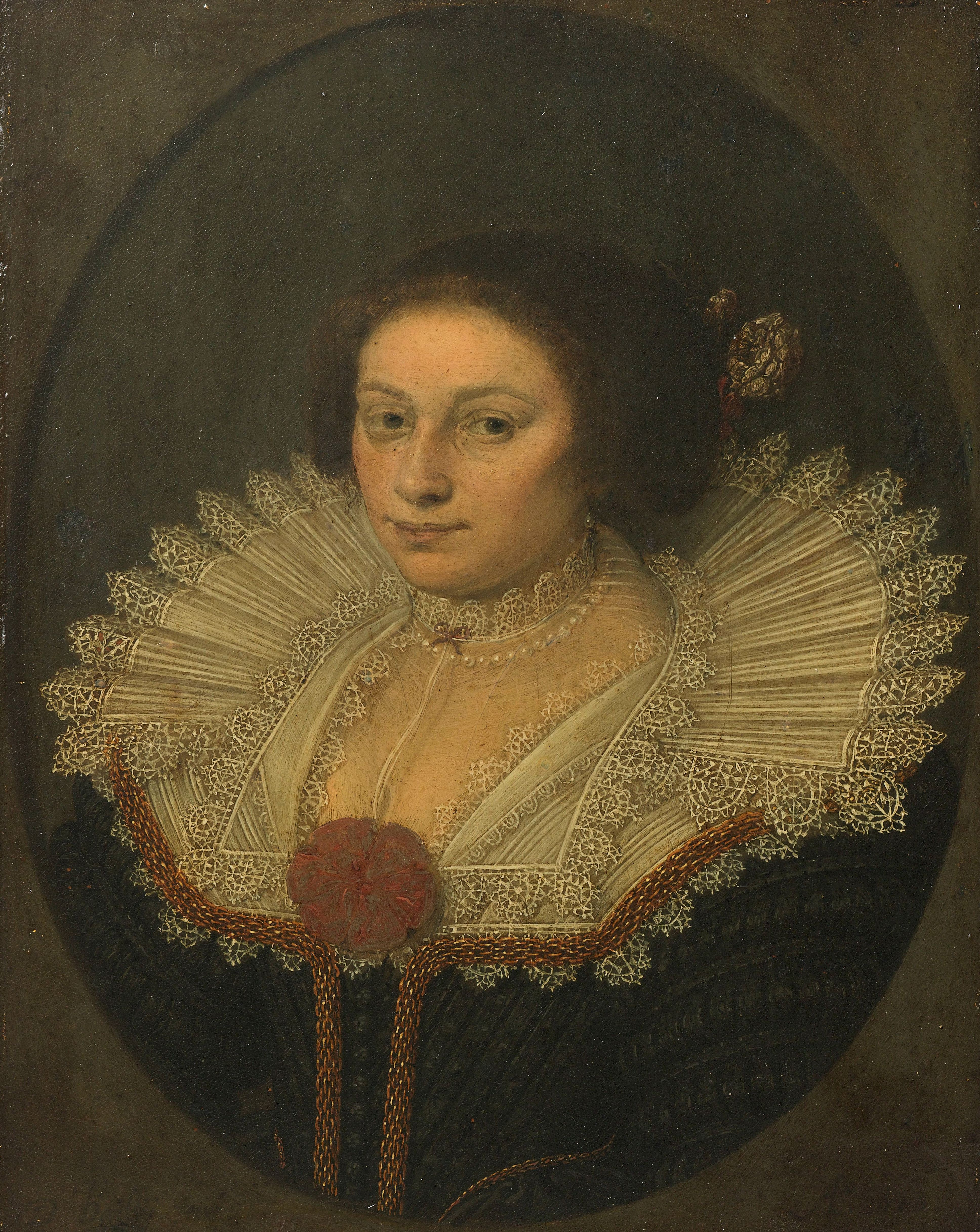 Portrait of Aertje Witsen, wife of Cornelis Bicker. Bust facing left, wearing a large lace collar.